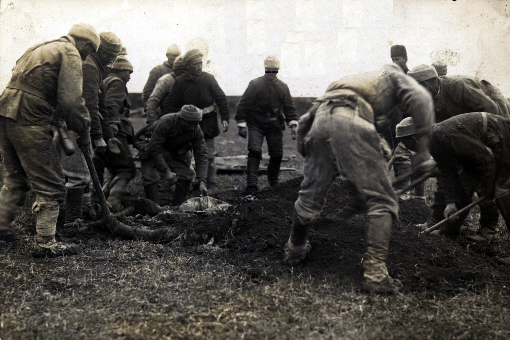 Ottoman soldiers burying the Muslim civilians left behind the retreating forces during Caucasus Campaign in WWI